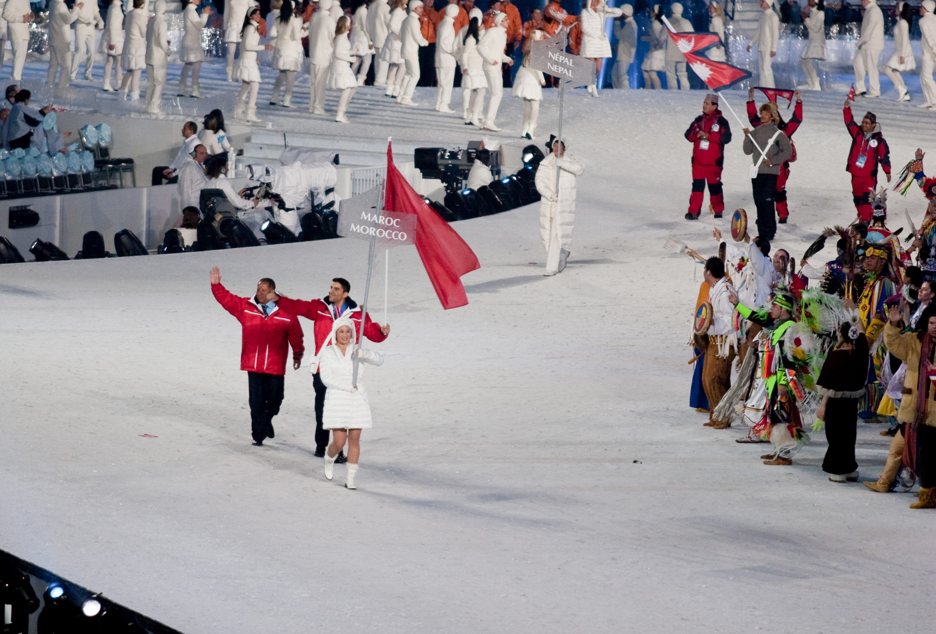 The athletes from Morocco entering the stadium at the opening ceremonies of the 2010 Winter Olympics